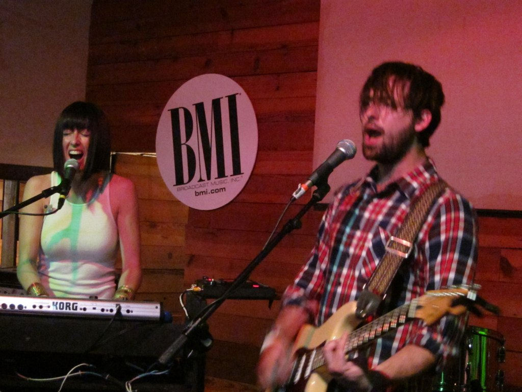 Phantogram live at Mohawk (2010)